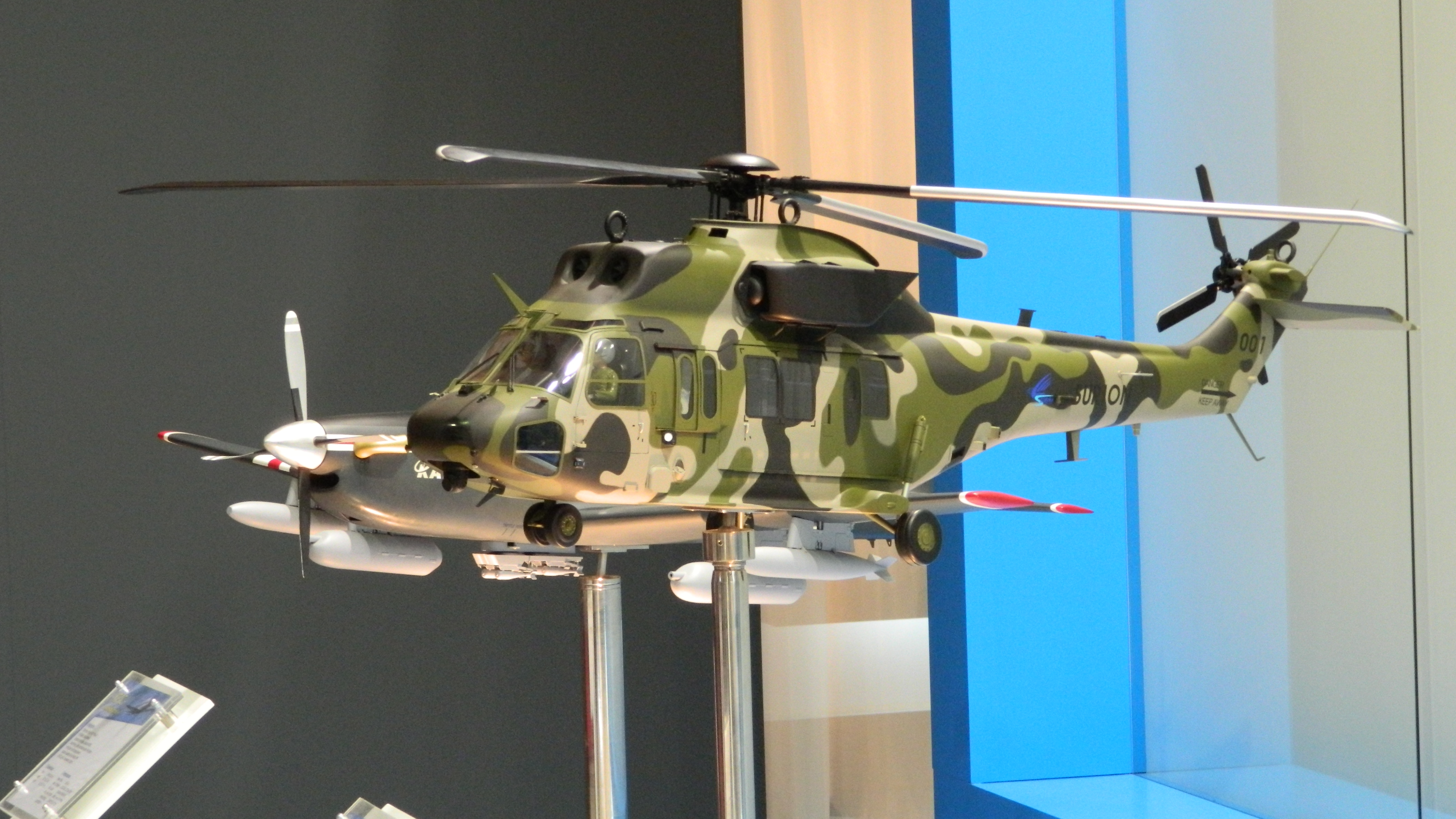 A model of the KAI Surion helicopter on display at the 2012 Farnbrough International Airshow